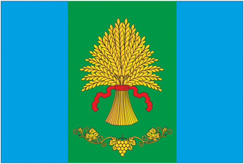 Flag of Rozdilna Raion, Odessa Oblast, Ukraine